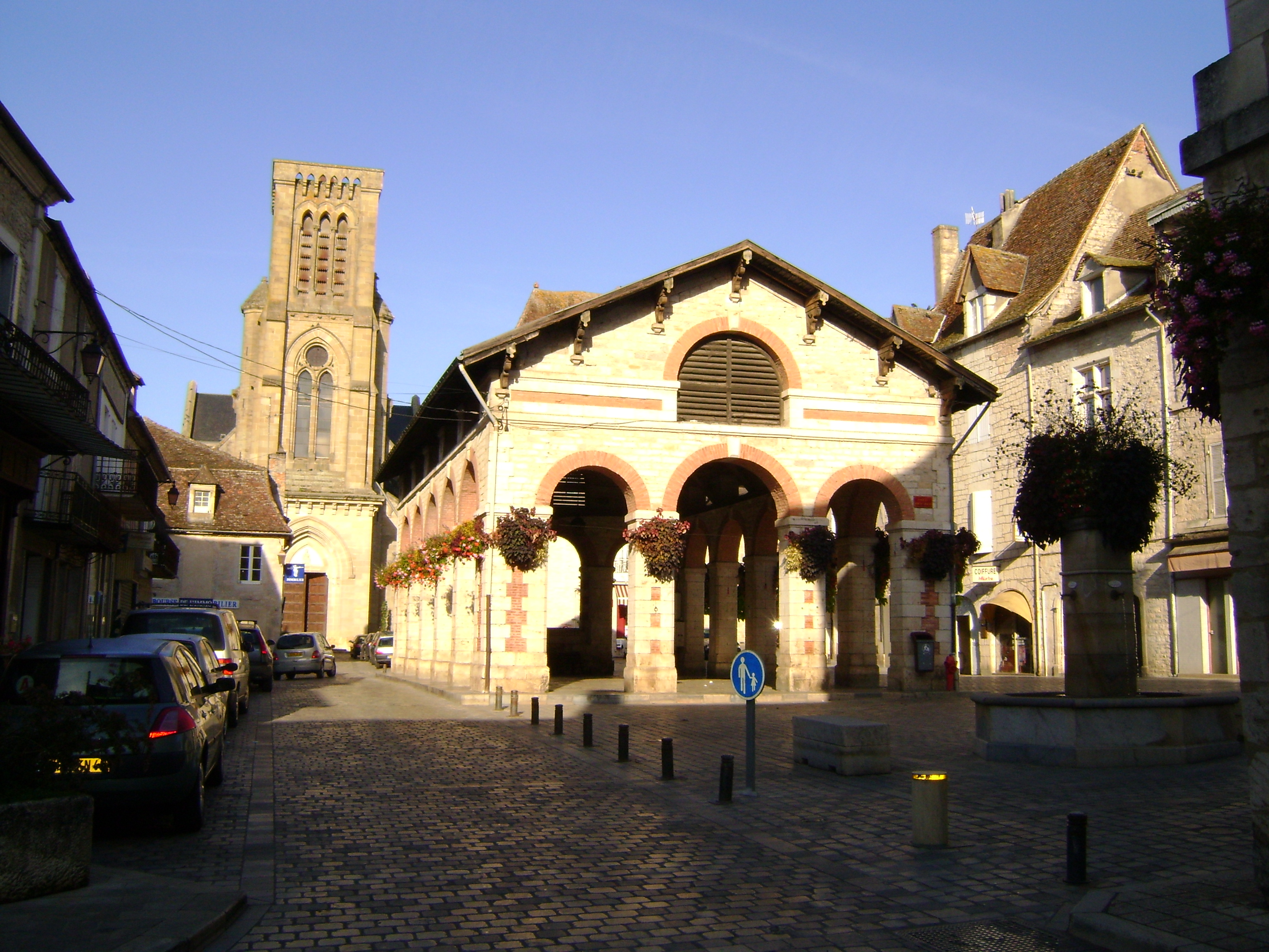 Picture of the Market Square of Gramat (Plaça del Mercat Cubèrt) on the morning (10/03/2008).